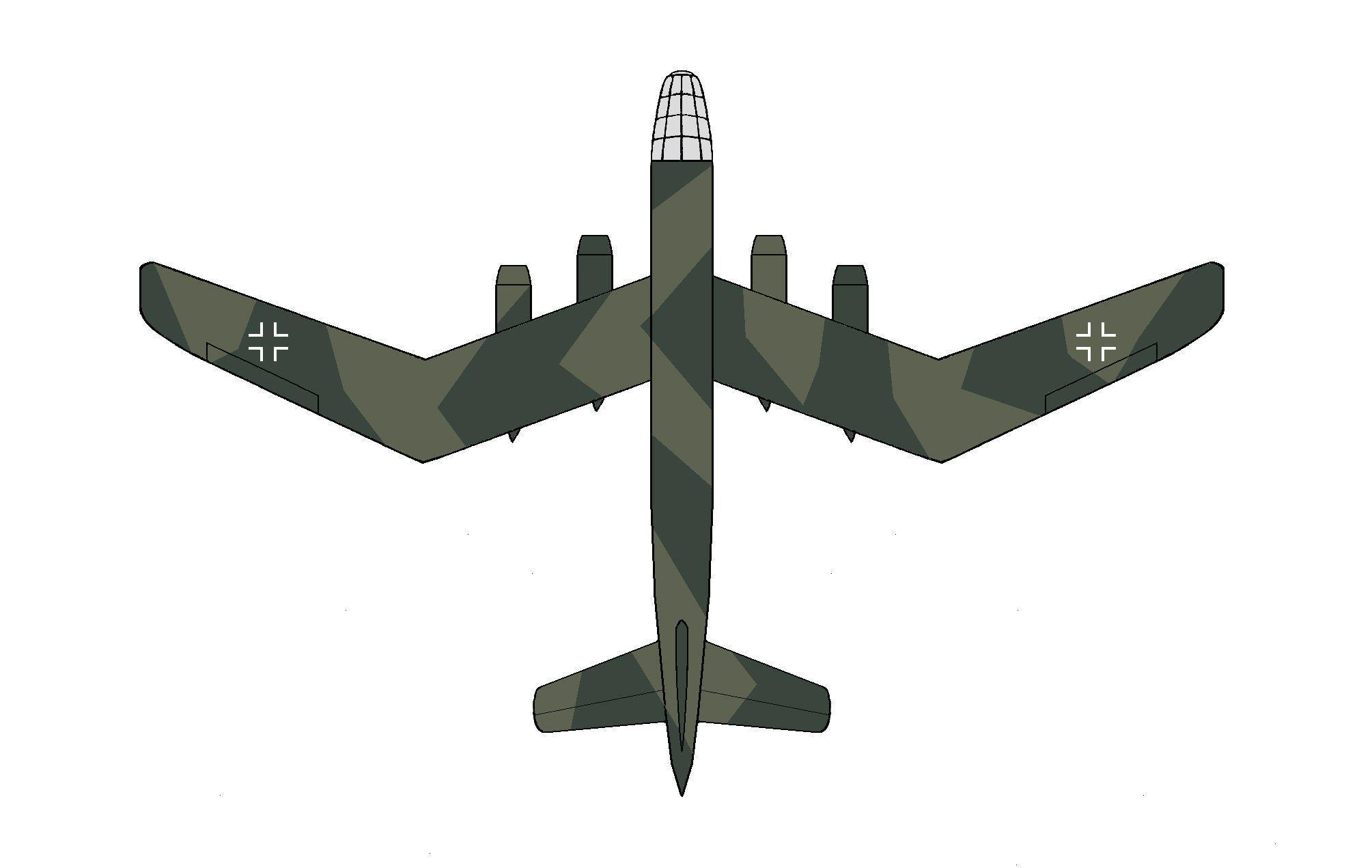 Pencil drawing of the Blohm & Voss P.188 01